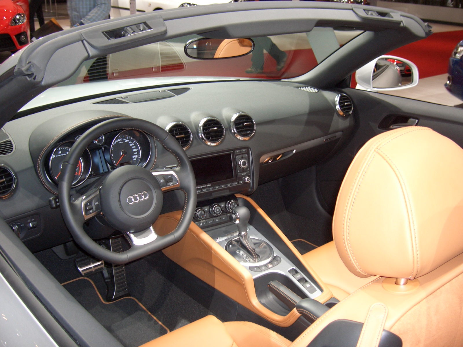 The cockpit of a second generadion Audi TT Roadster